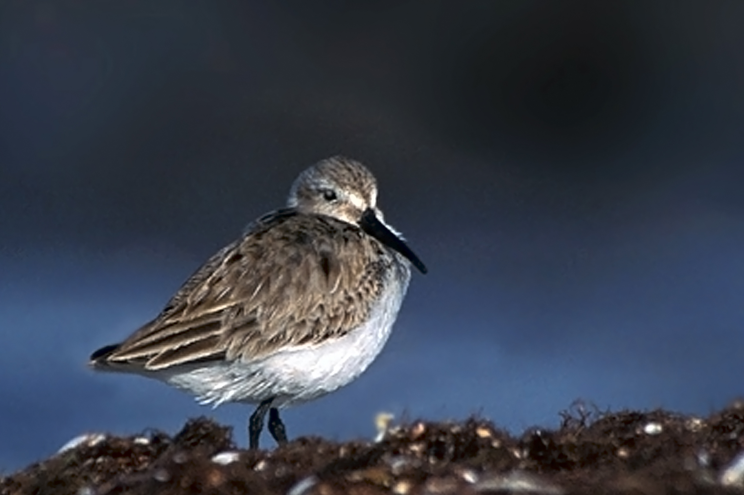 Photographed on Captiva beach.